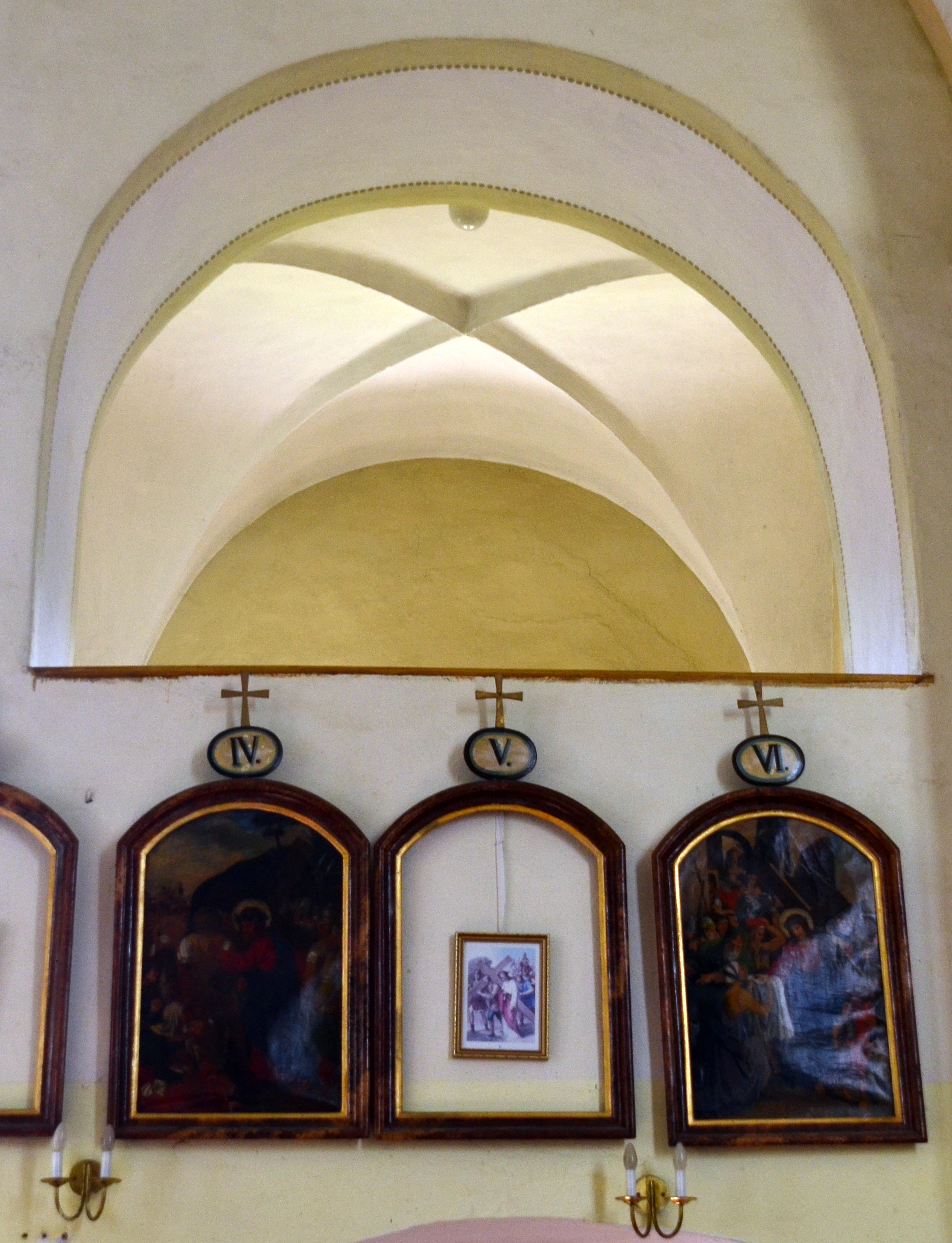 Klenba v kostele v Horní Branné